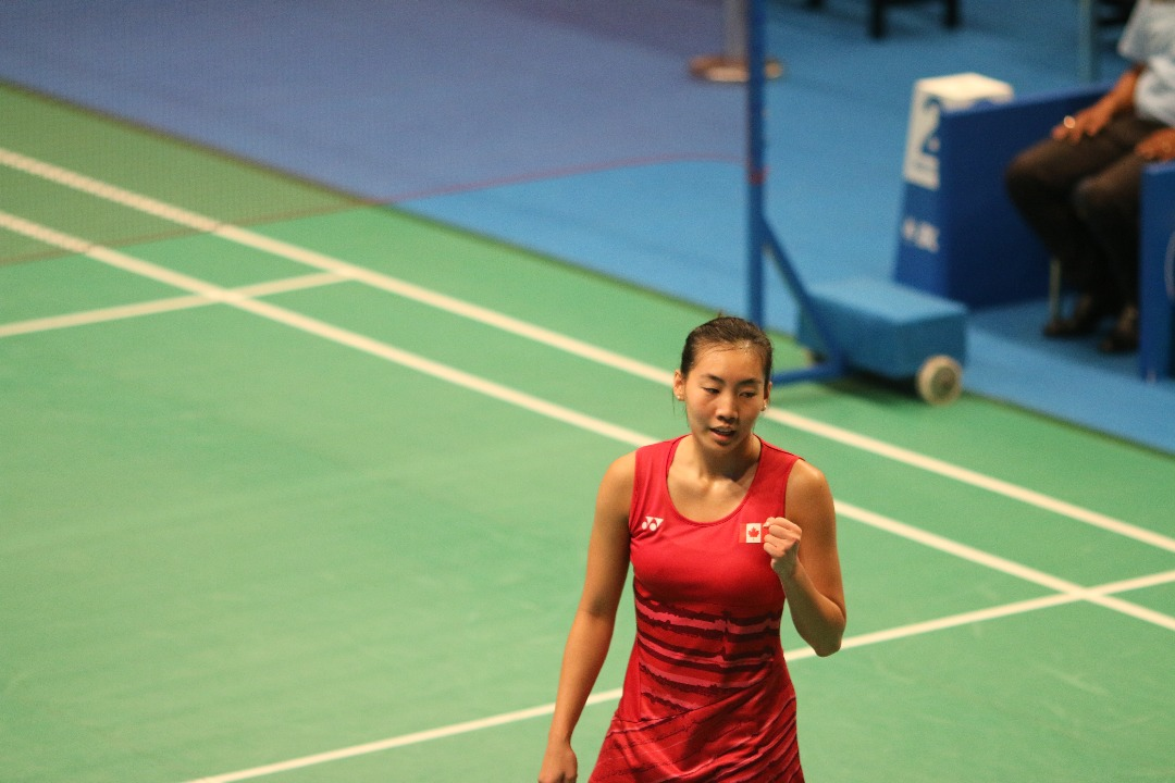 Michelle Li in action during BCA Indonesia Open Superseries Premier 2017